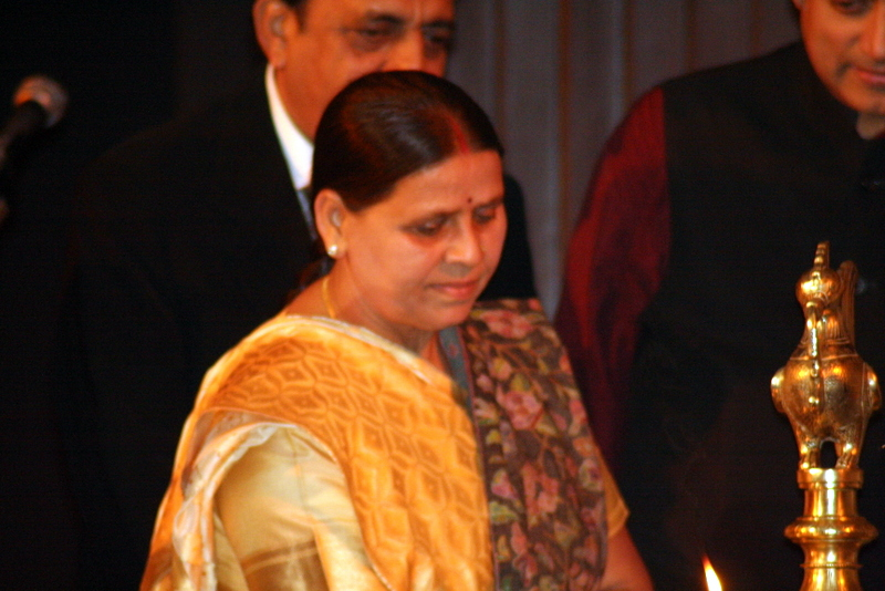 Former Bihar CM Rabri Devi